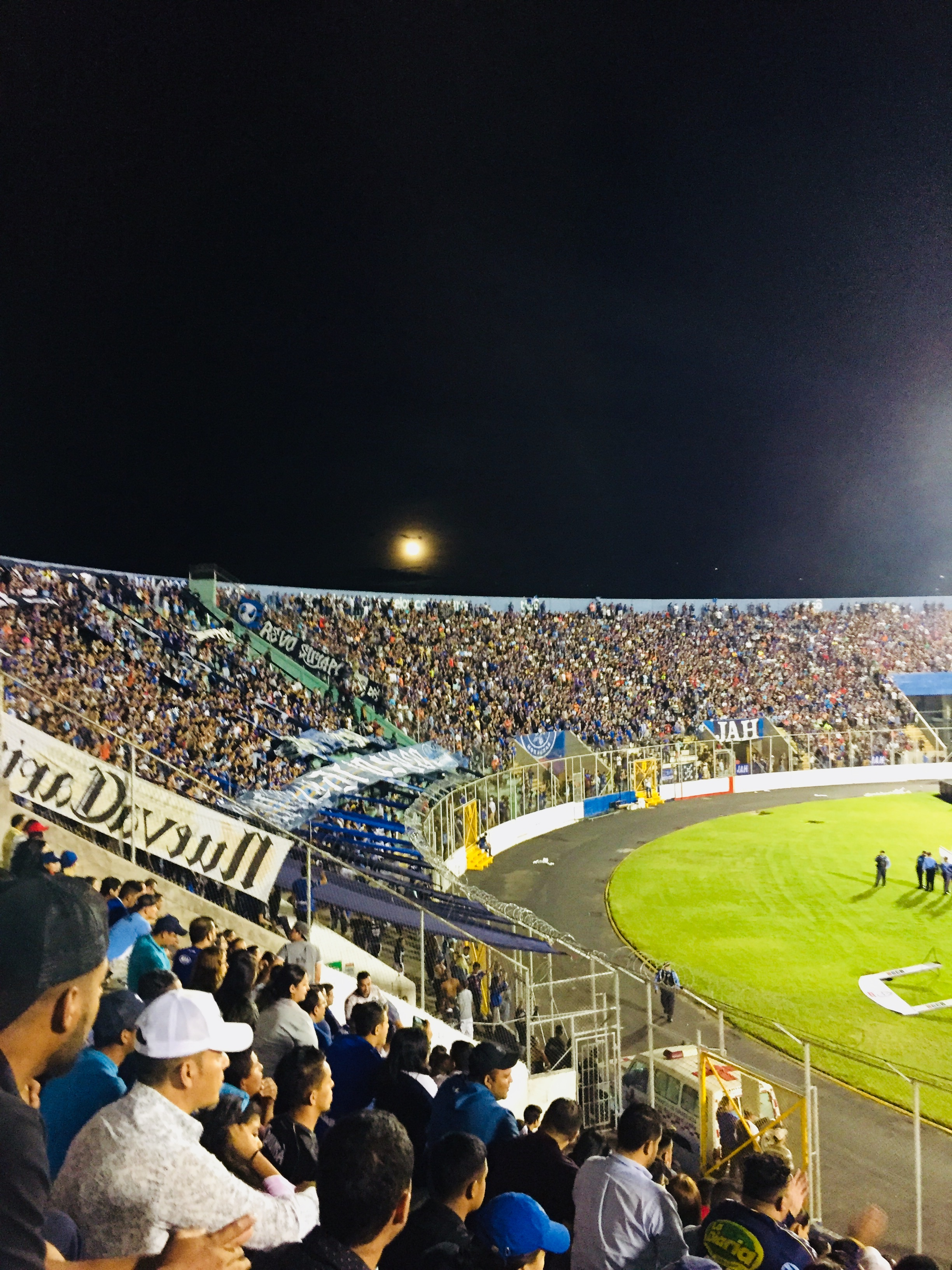 Motagua vs Tauro (2018 Concacaf League)